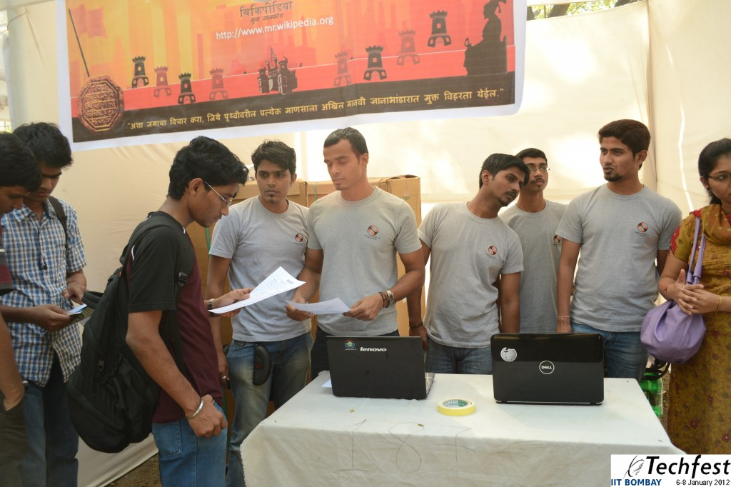 Marathi_Wikipedia_Stall_At_Techfest_IIT_Bombay